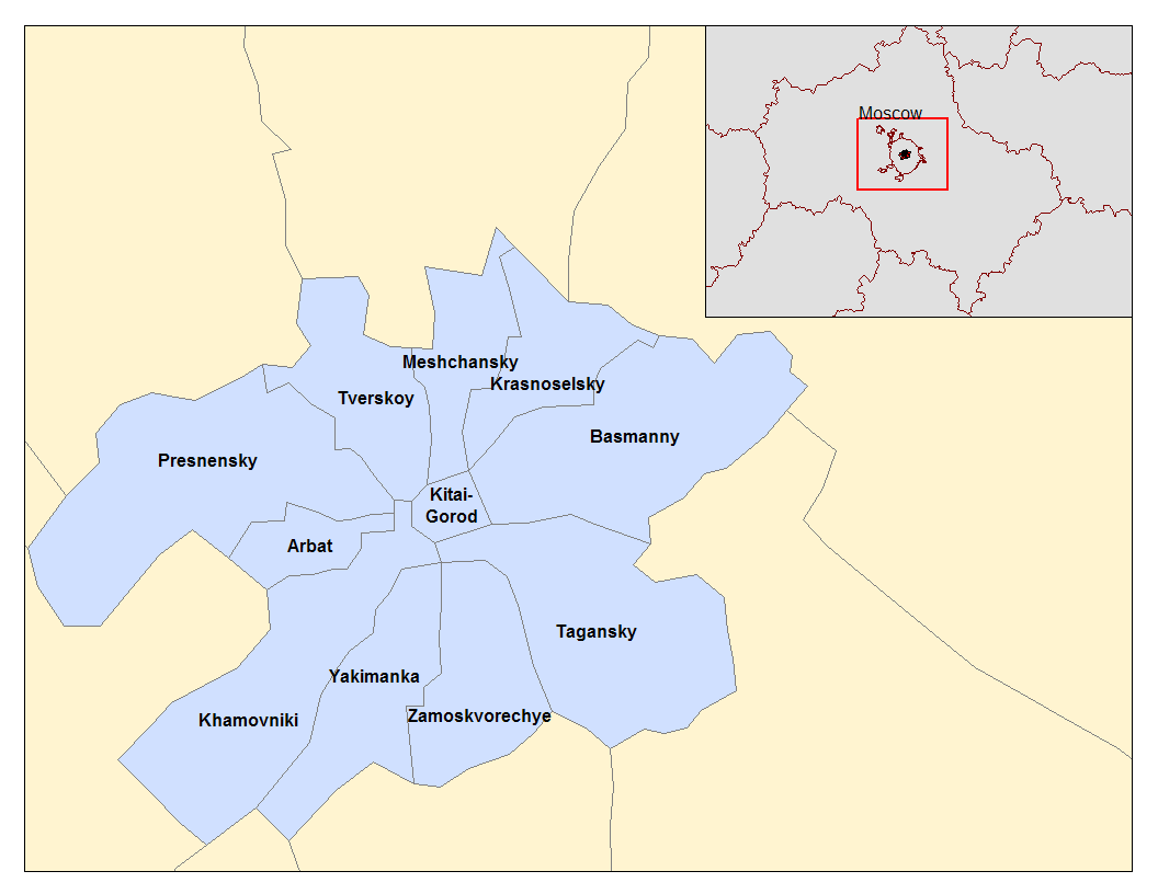 Map of the districts of the Central Administrative Okrug of the Federal City of Moscow. Created by Rarelibra 20:51, 3 April 2007 (UTC) for public domain use, using MapInfo Professional v8.5 and various mapping resources.